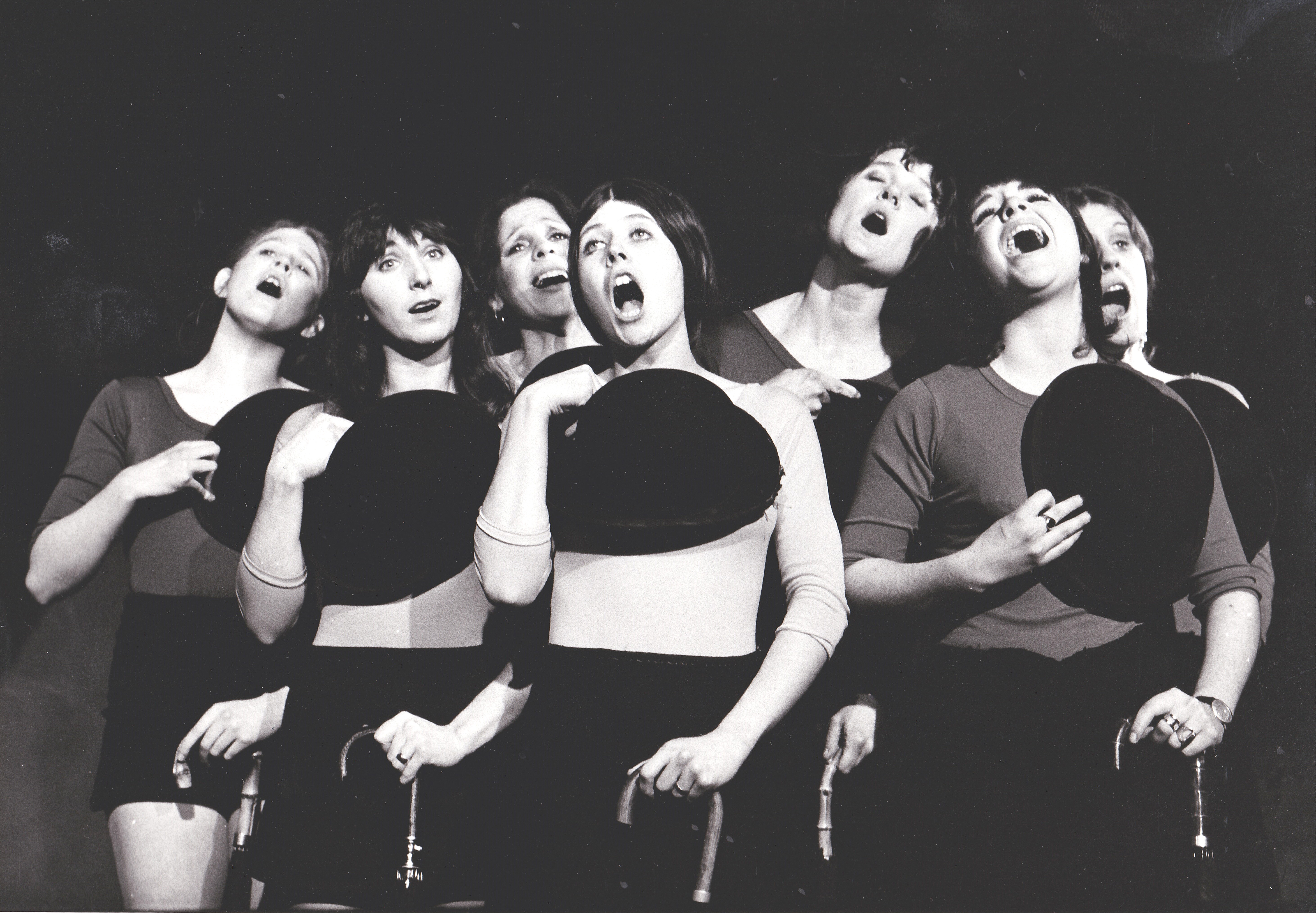 Scene, Critics Group, Festival of Fools, January 1972, New Merlins Cave, London